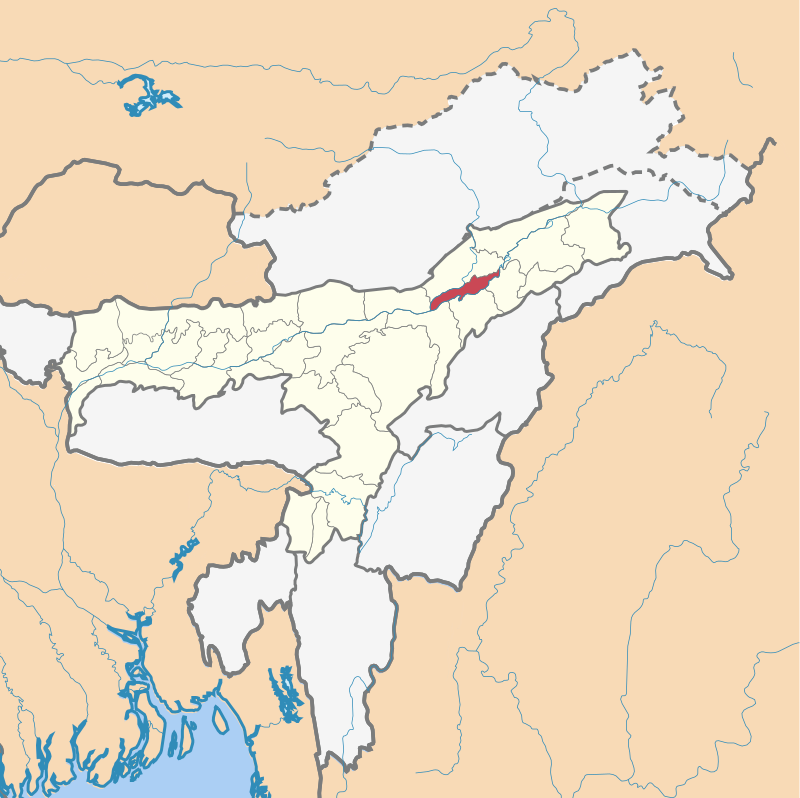 Assam district locator map Majuli